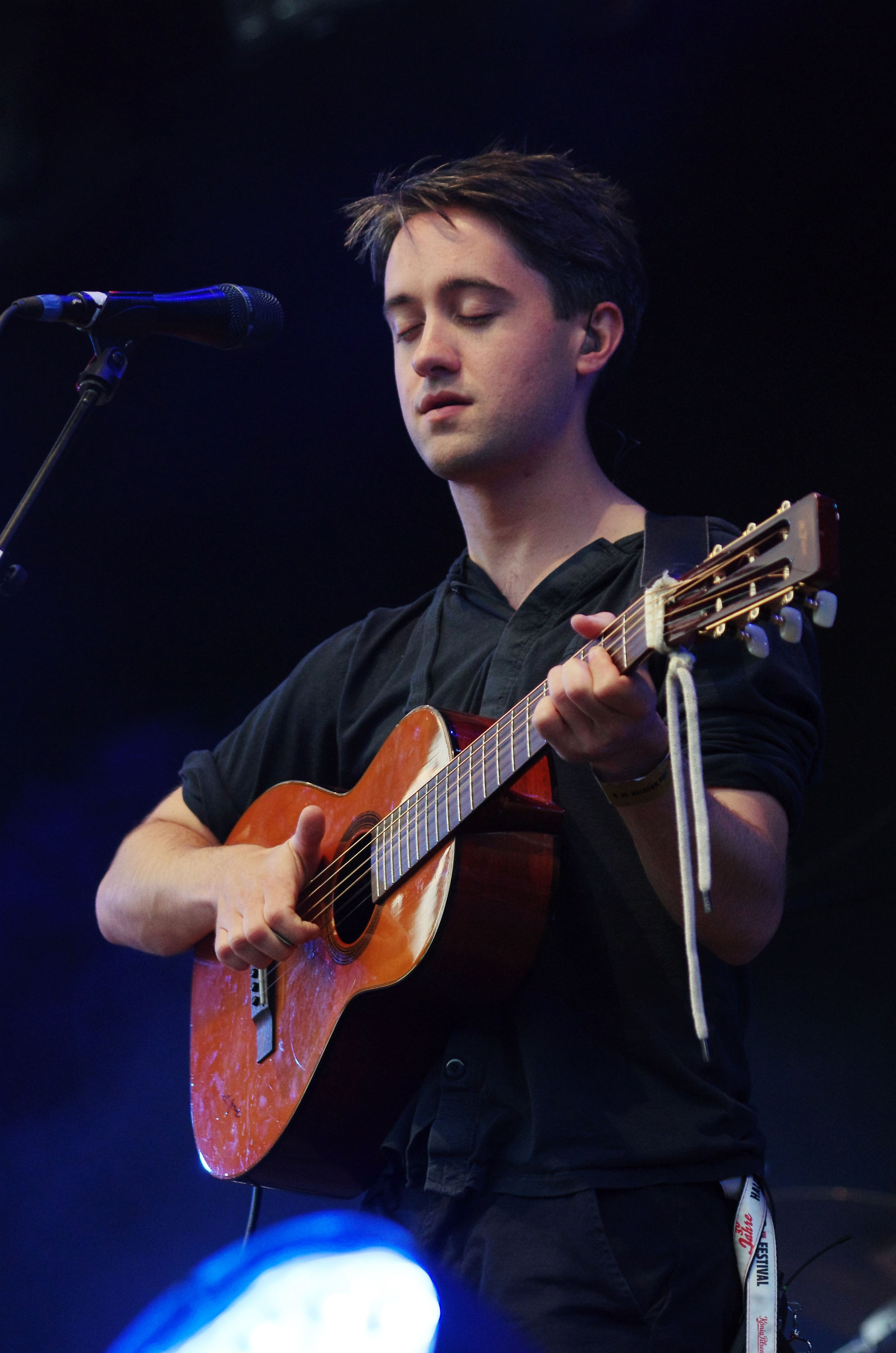 Indie folk rock band Villagers from Ireland at Haldern Pop Festival 2013. Members: Conor J. O'Brien - vocals, acoustic guitar; Tommy McLaughlin - electric guitar, mandolin, backing vocals; Daniel Snow - bass, guitar: Cormac Curran - keyboards, backing vocals; James Byrne - drums